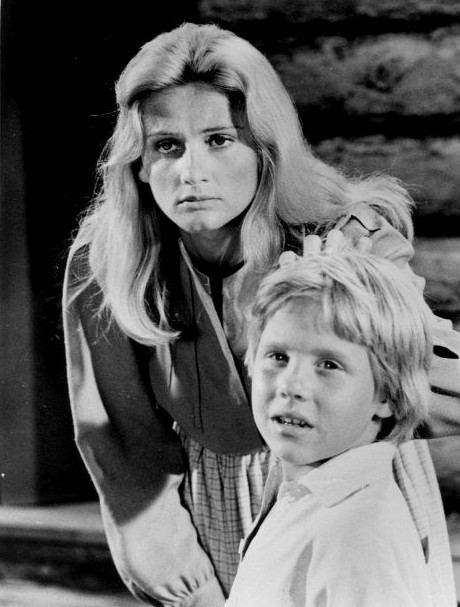 Photo of Jill Ireland as Marion Starett and Christopher Shea as her son, Joey, from the short lived television series Shane.